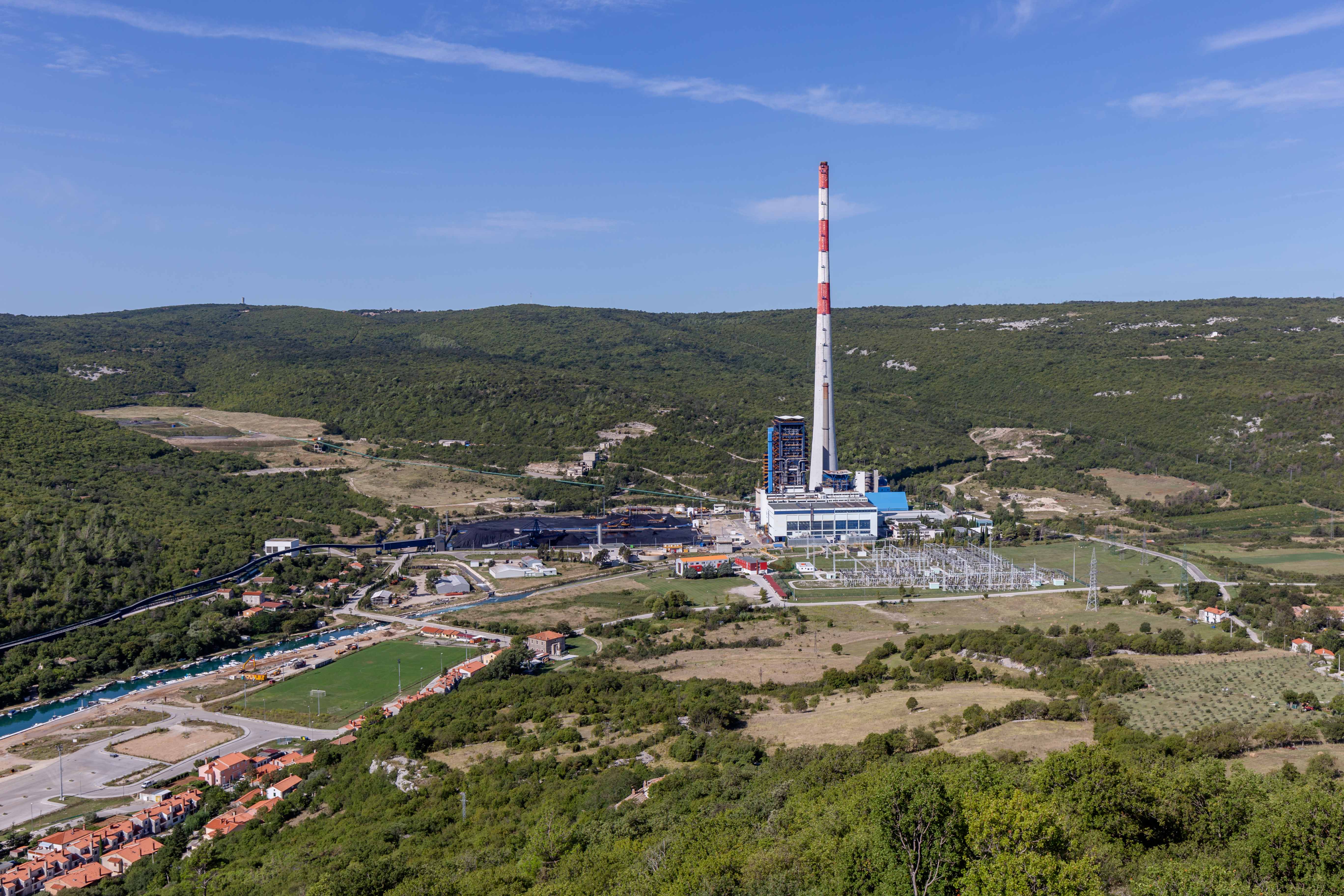 Power station Plomin. View from a church in Plomin, Istria County, Croatia